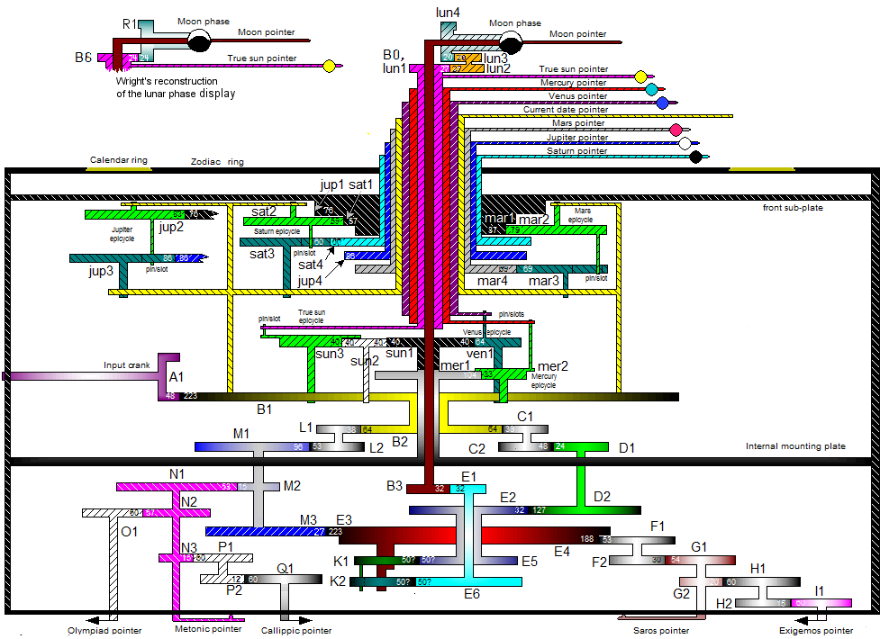 A schematic representation of the gearing of the Antikythera Mechanism, including the latest published interpretation of existing gearing, gearing added to complete known functions and proposed gearing to accomplish additional functions, namely true sun pointer and pointers for the five then-known planets, as proposed by Freeth and Jones, 2012. Previous models in Freeth 2006 Supplement, p.12 and in Wright 2005 (Epicyclics, Part 2, p. 53)